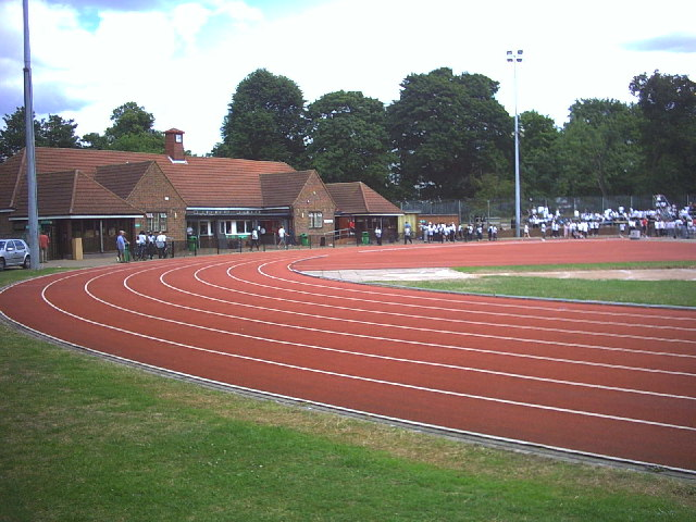 Tooting Bec Athletic Track. Tooting Bec Road (A214). It appears to be a school sports day.